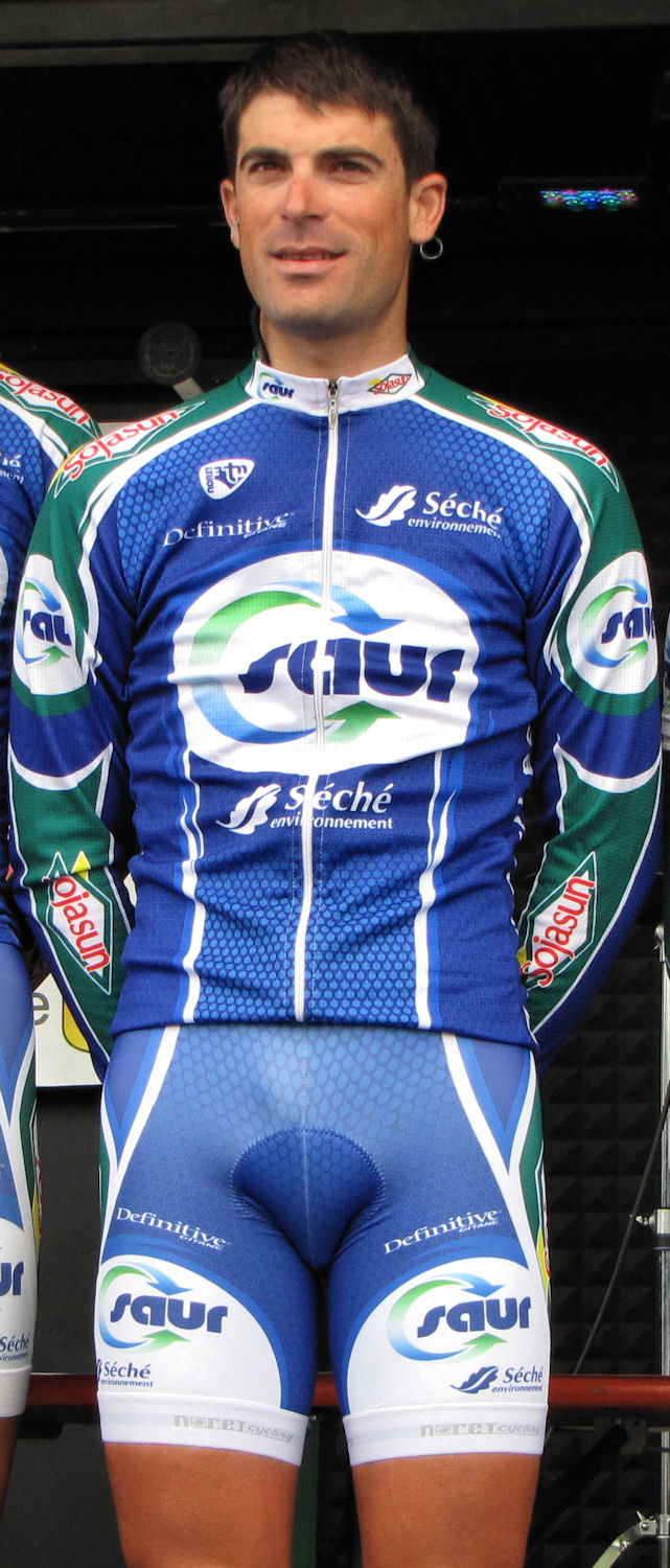 Jimmy Engoulvent